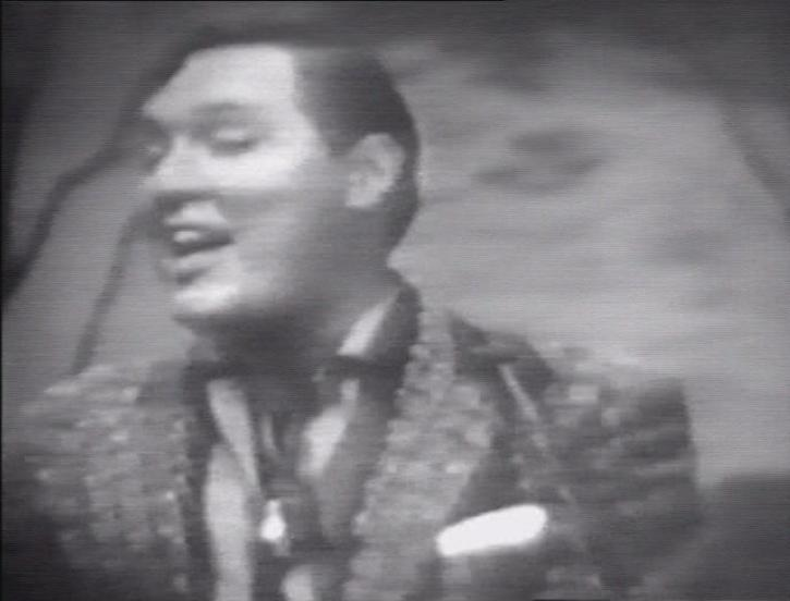 A still image from "The Ted Steele Show", 1955 telecast, image of Bill Haley, a singer, guitarist and occasional songwriter. Leader of band "Bill Haley & The Comets". Still image of sequence of him singing song "Rock Around the Clock".